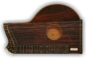 Harf zither (A.Kiendl, Vienna - one of the first tools of about 1848)